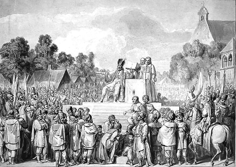 Casimir III the Great, Wiślica Sejm